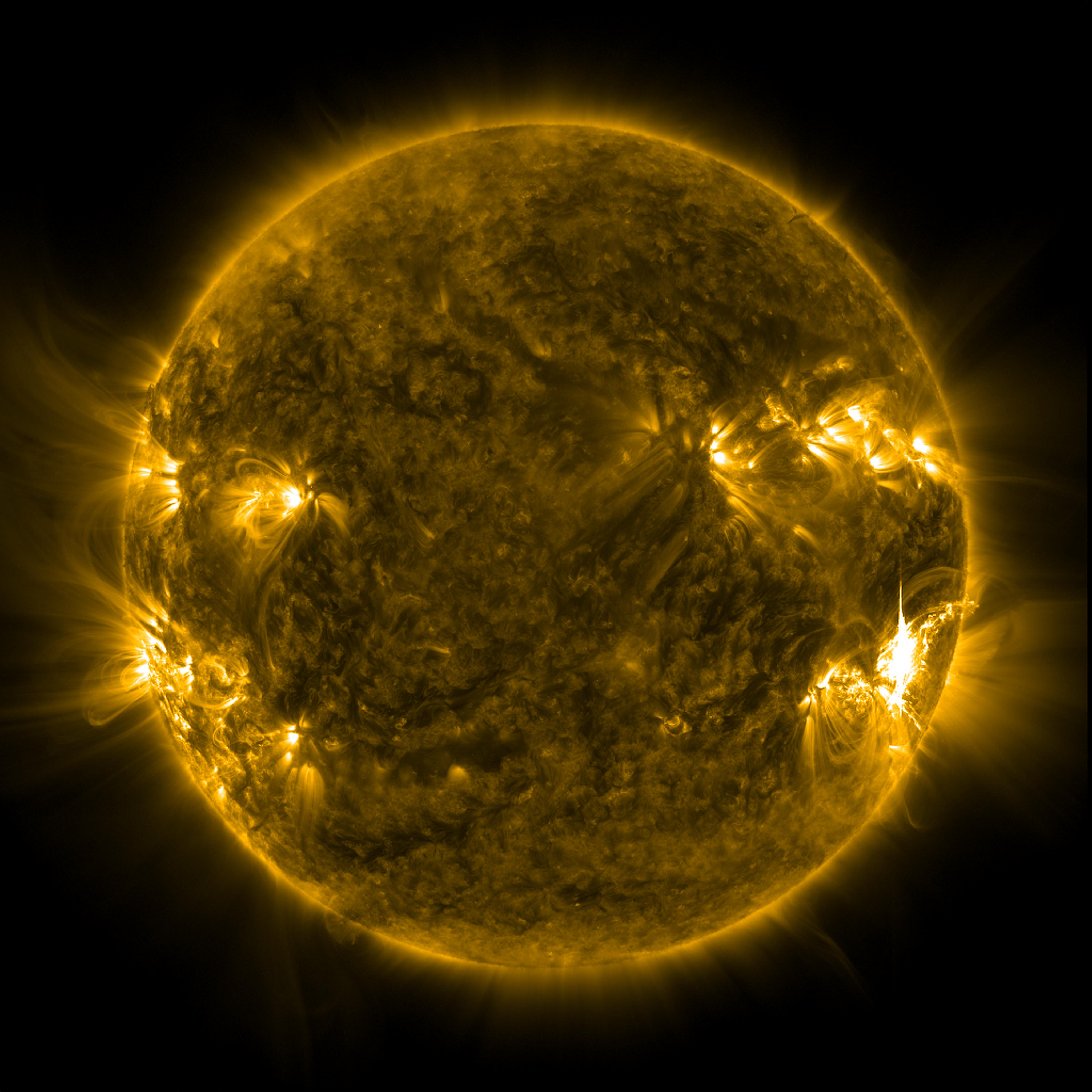 Active Region 1515 released an X1.1 class flare from the lower right of the sun on July 6, 2012, peaking at 7:08 PM EDT. This flare caused a radio blackout, labeled as an R3 on the National Oceanic and Atmospheric Administrations scale that goes from R1 to R5. Such blackouts can cause disruption to both high and low level radio frequencies. Earth's magnetosphere also underwent a minor geomagnetic storm on the evening of July 6 in response to relatively slow coronal mass ejections (CMEs) that have erupted from other regions on the sun since July 4. Credit: NASA/SDO/AIA NASA image use policy. NASA Goddard Space Flight Center enables NASA’s mission through four scientific endeavors: Earth Science, Heliophysics, Solar System Exploration, and Astrophysics. Goddard plays a leading role in NASA’s accomplishments by contributing compelling scientific knowledge to advance the Agency’s mission. Follow us on Twitter Like us on Facebook Find us on Instagram